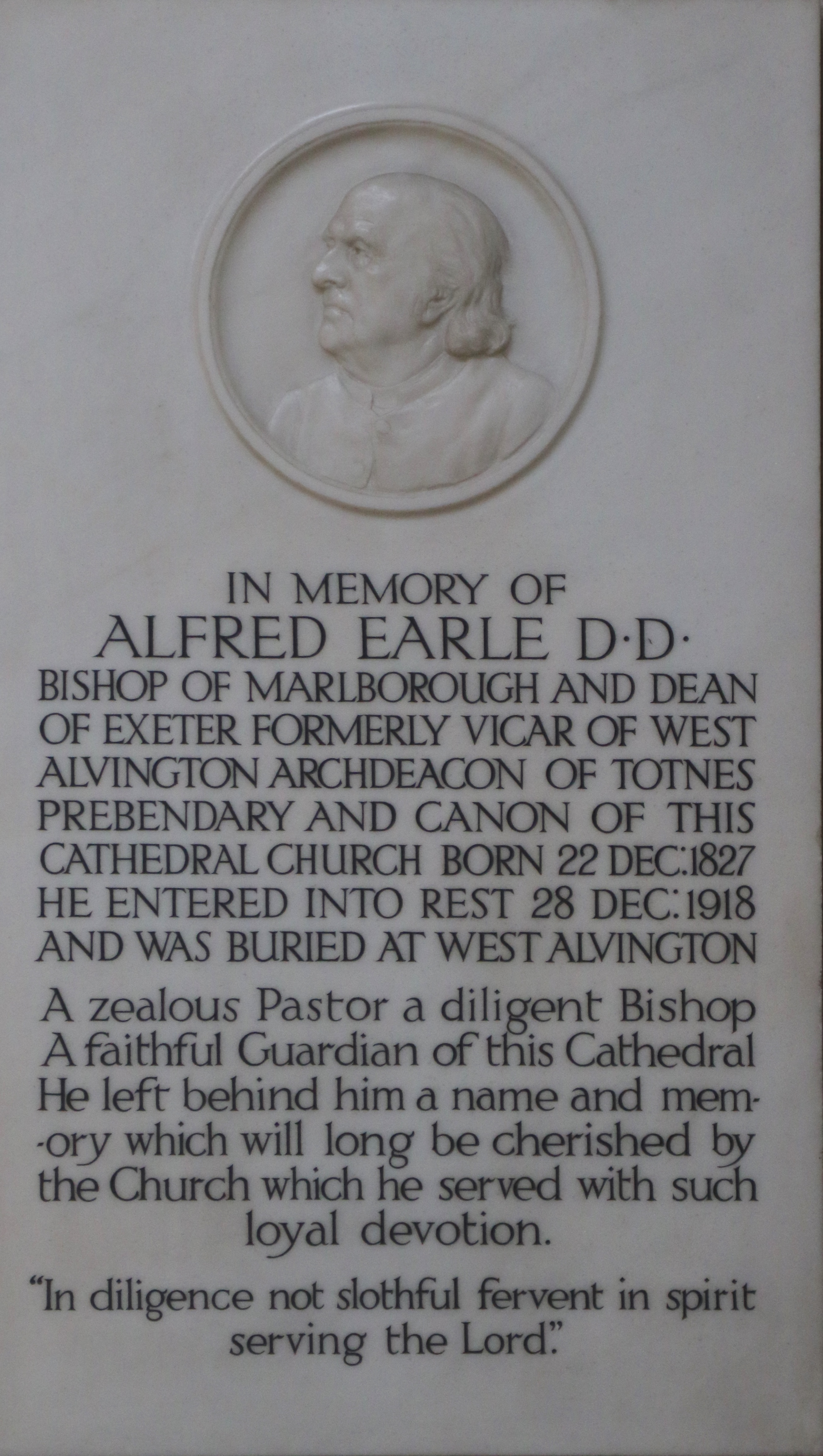 Bishop of Marlborough. Dean of Exeter.